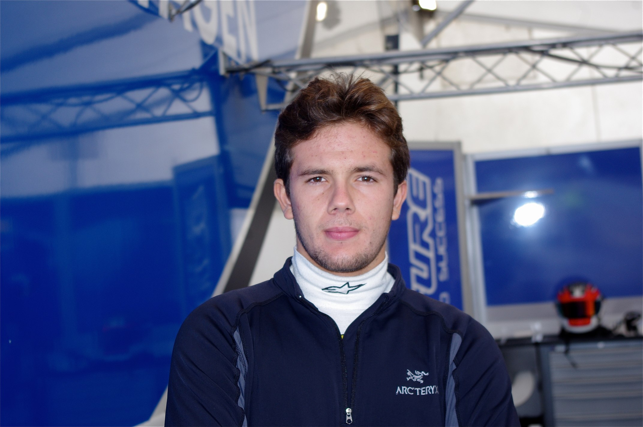 Carlos Muñoz at Silverstone in 2011